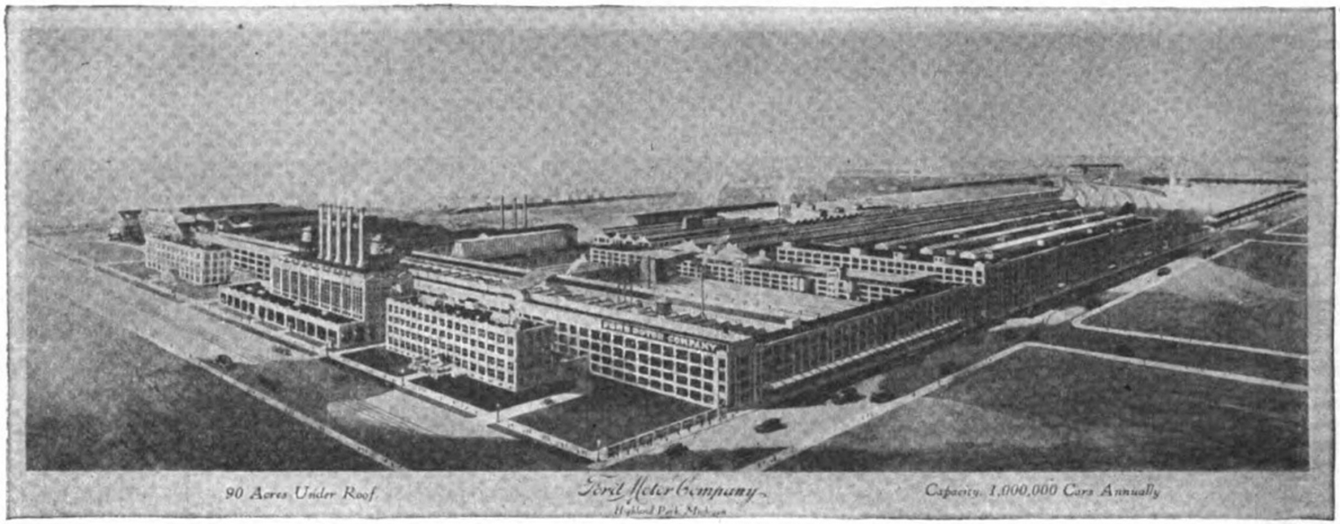 A view of the Highland Park plant of the Ford Motor Company in 1922.